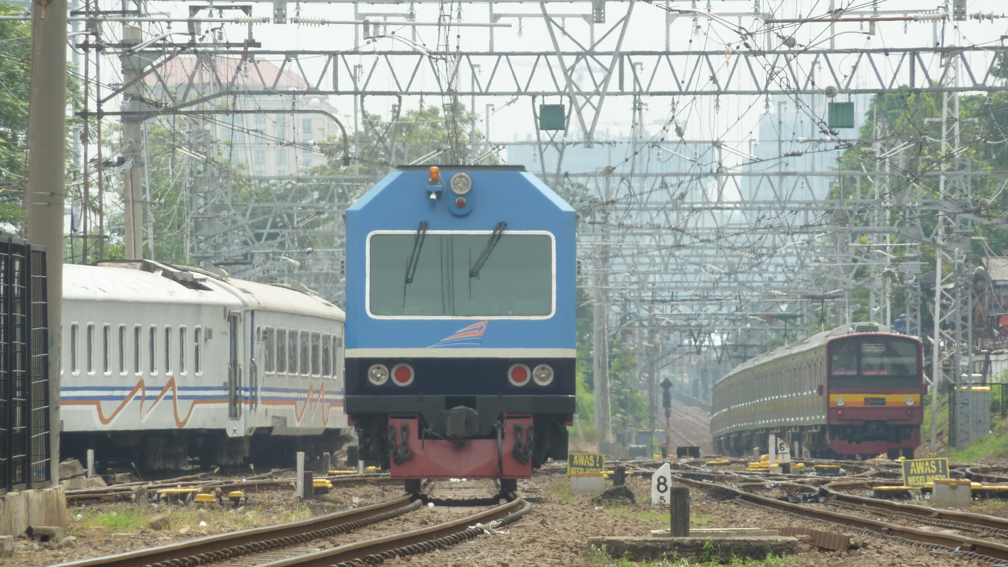 A Kereta Api Indonesia's track geometry car type EM120 made by Plasser and Theurer in Linz, Austria in 1995 in a track geometry inspection run in Manggarai Station in South Jakarta, Indonesia, with former JR East Nambu Line 205 series set 7 and 8 as a 12-car commuter train bound for Jakarta Kota from Bogor and a regular shunting duty in the background, July 2016.